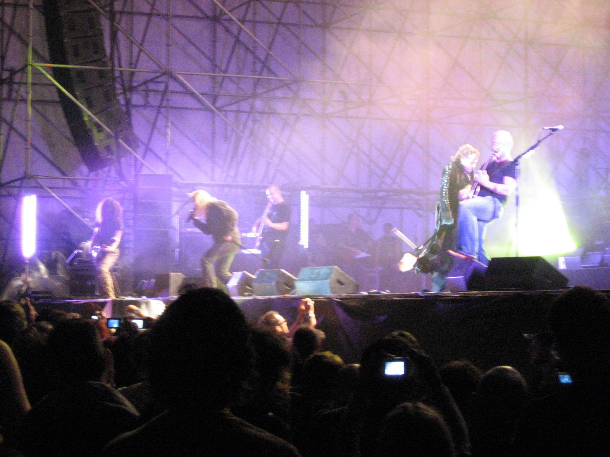 Avantasia at Rockin field festival - 26 July 2008 (Idroscalo, Milan)